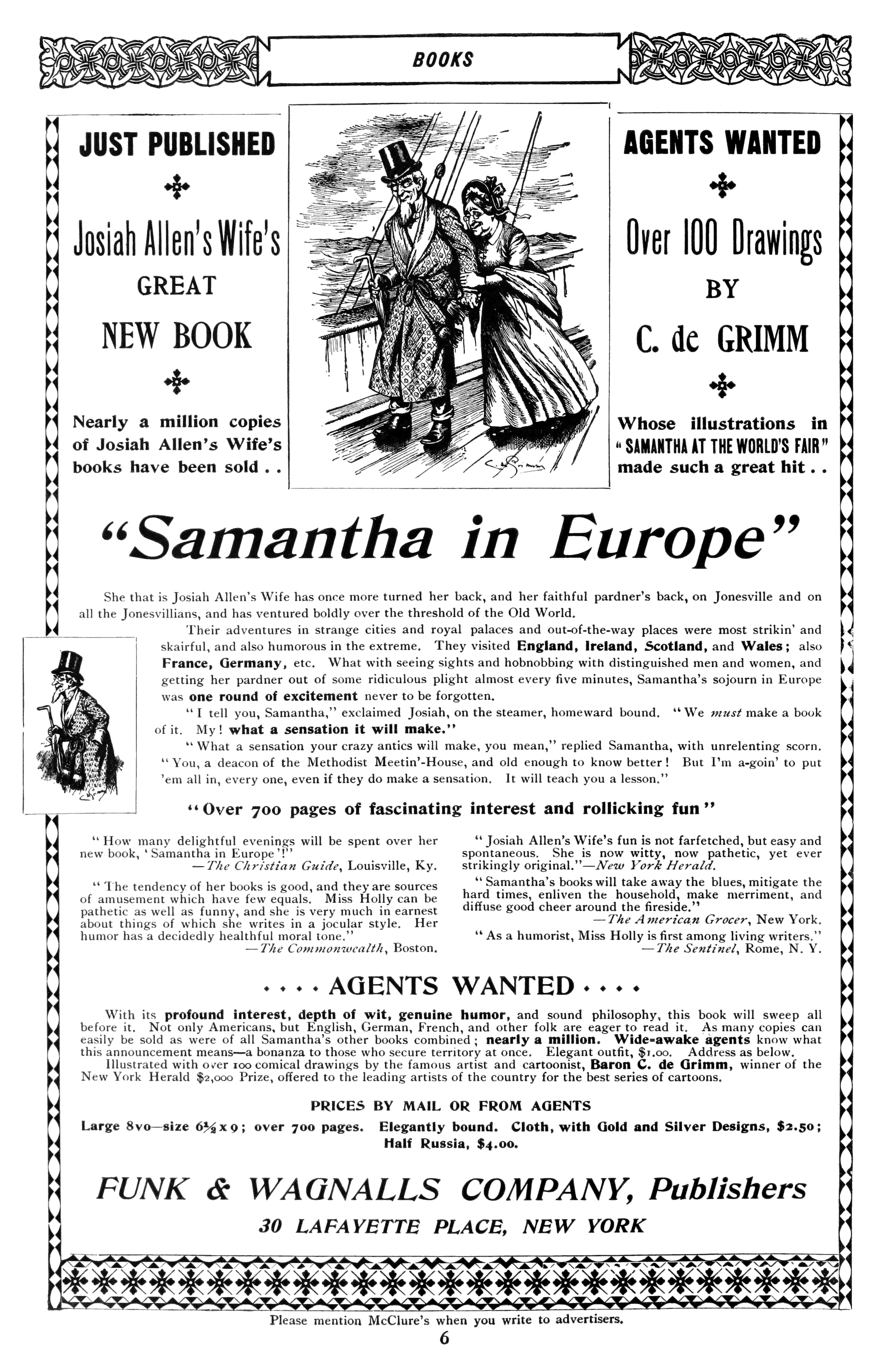 Advertisement in the January 1896 issue of McClure's Magazine for the book Samantha in Europe by Marietta Holley.